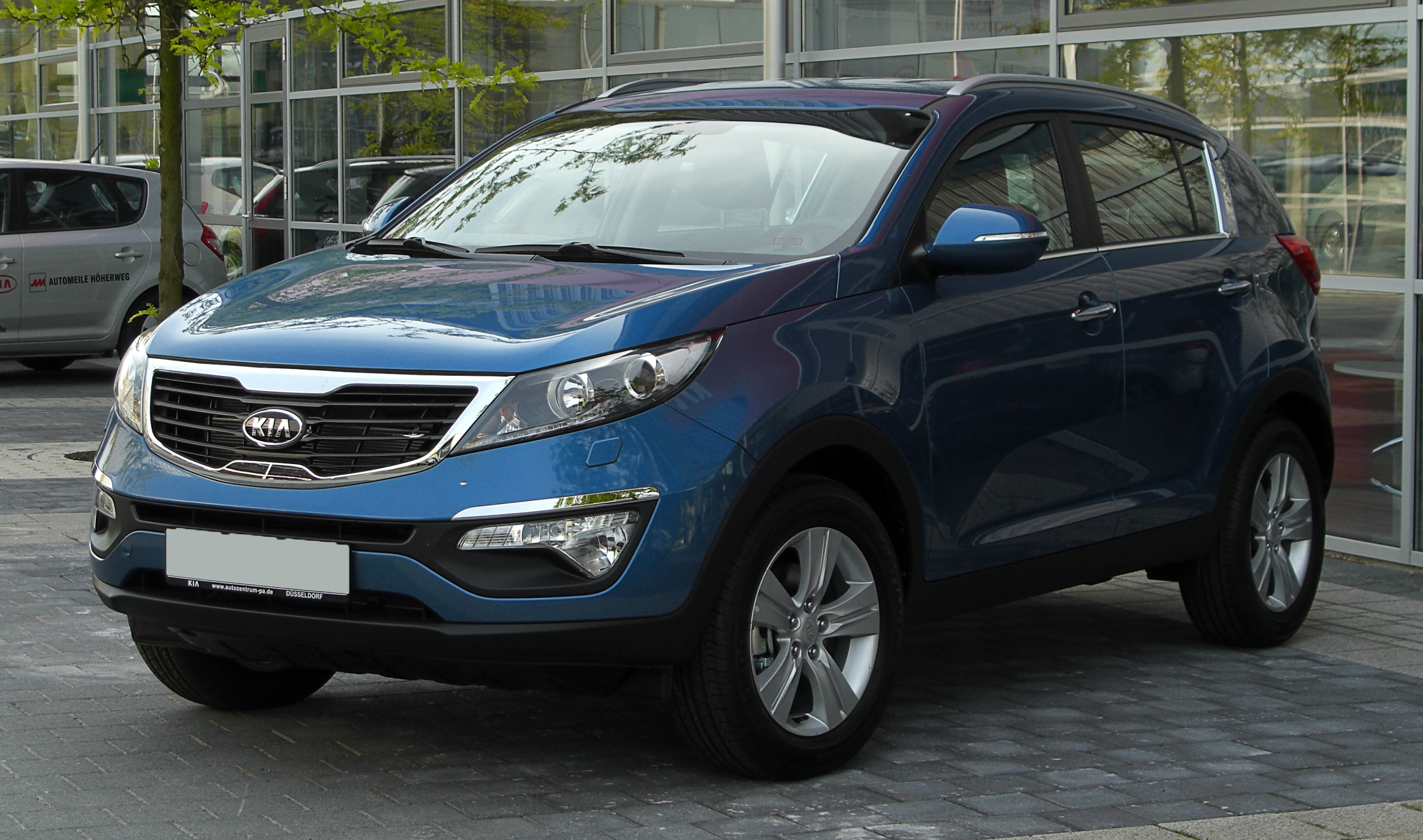 Kia Sportage Vision (III)